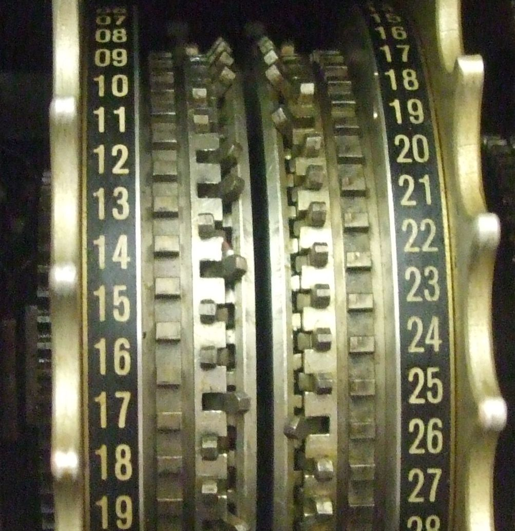 Psi wheels (#3 and #4) of Lorenz cipher machine